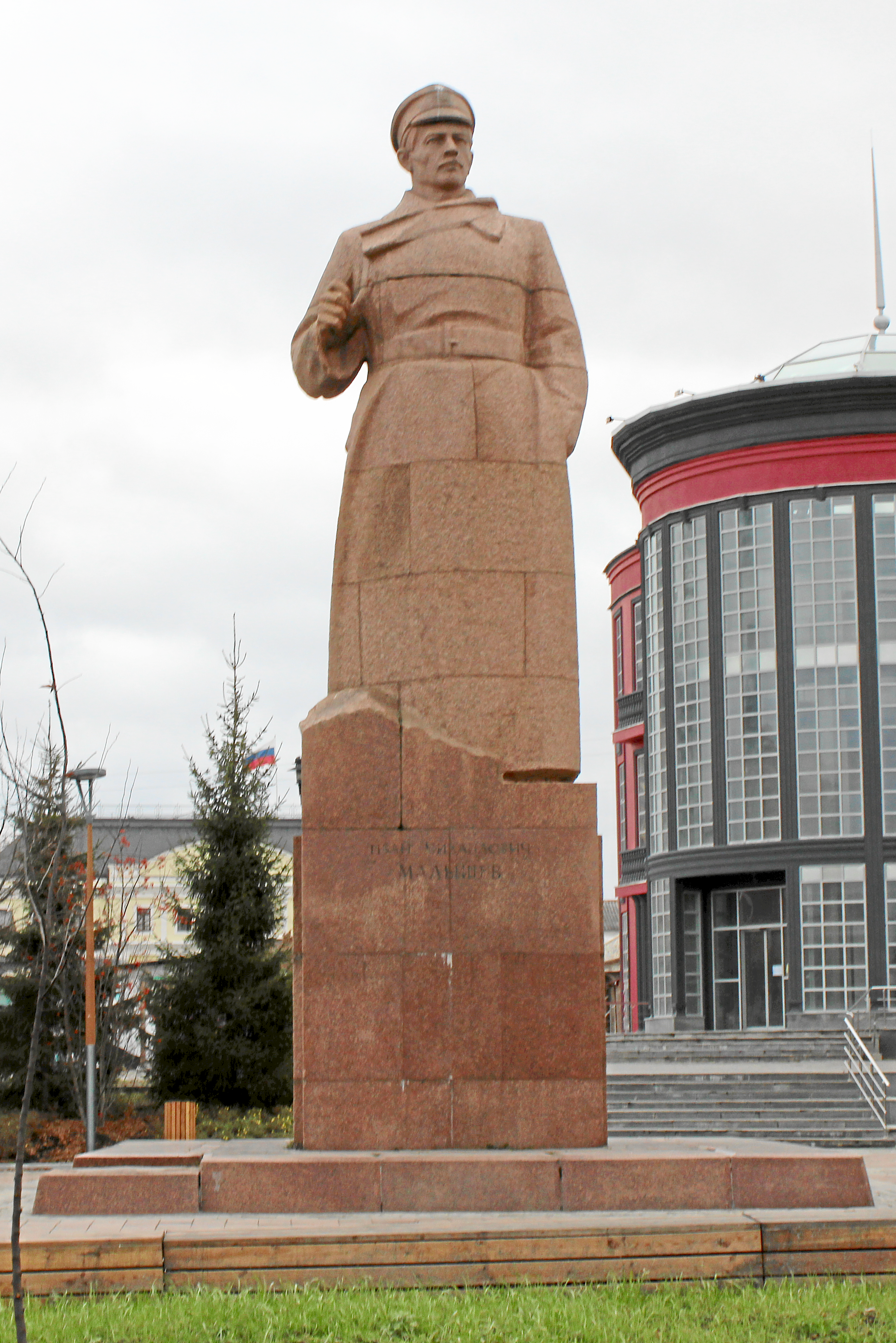 The monument to Ivan Malyshev in Yekaterinburg